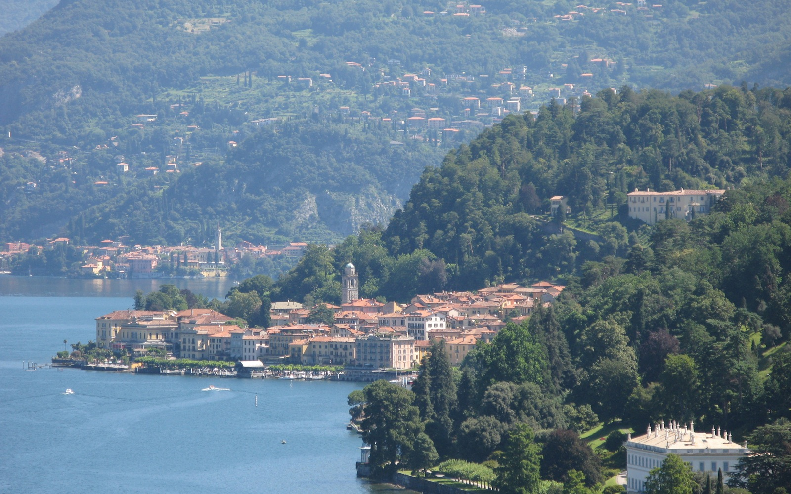 View of Bellagio from Vergonese